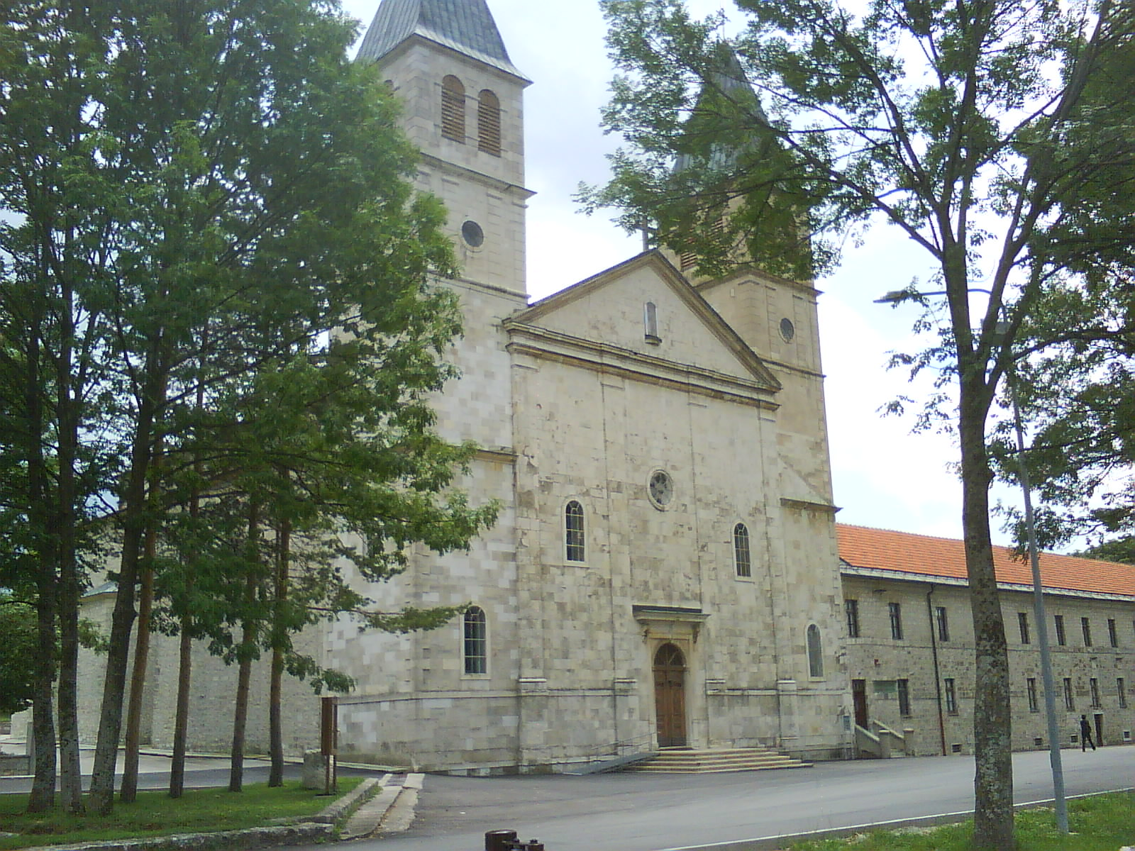 Roman Catholic church of St.Peter and Paul in Livno